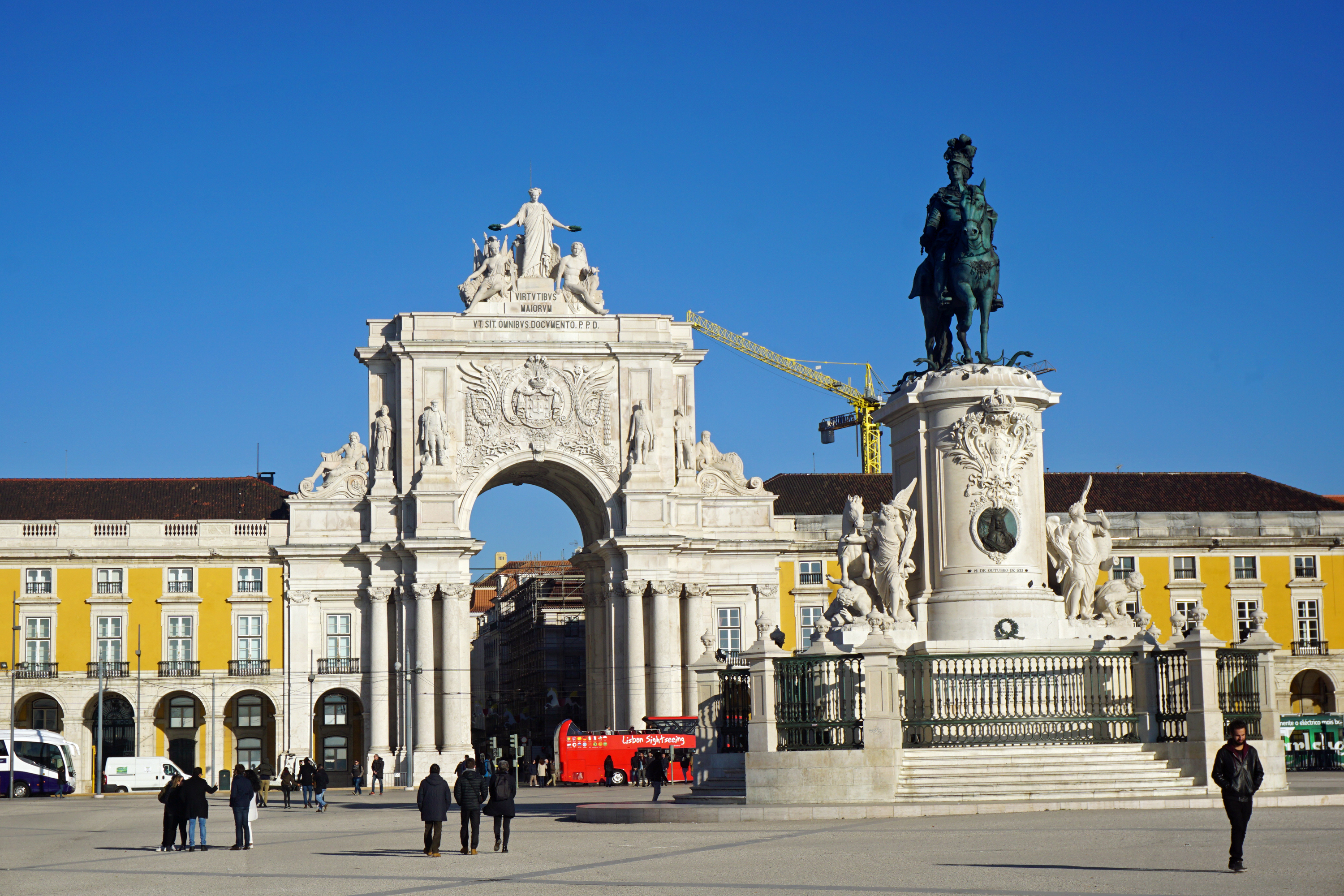 Praça do Comércio, Lisboa, Portugal